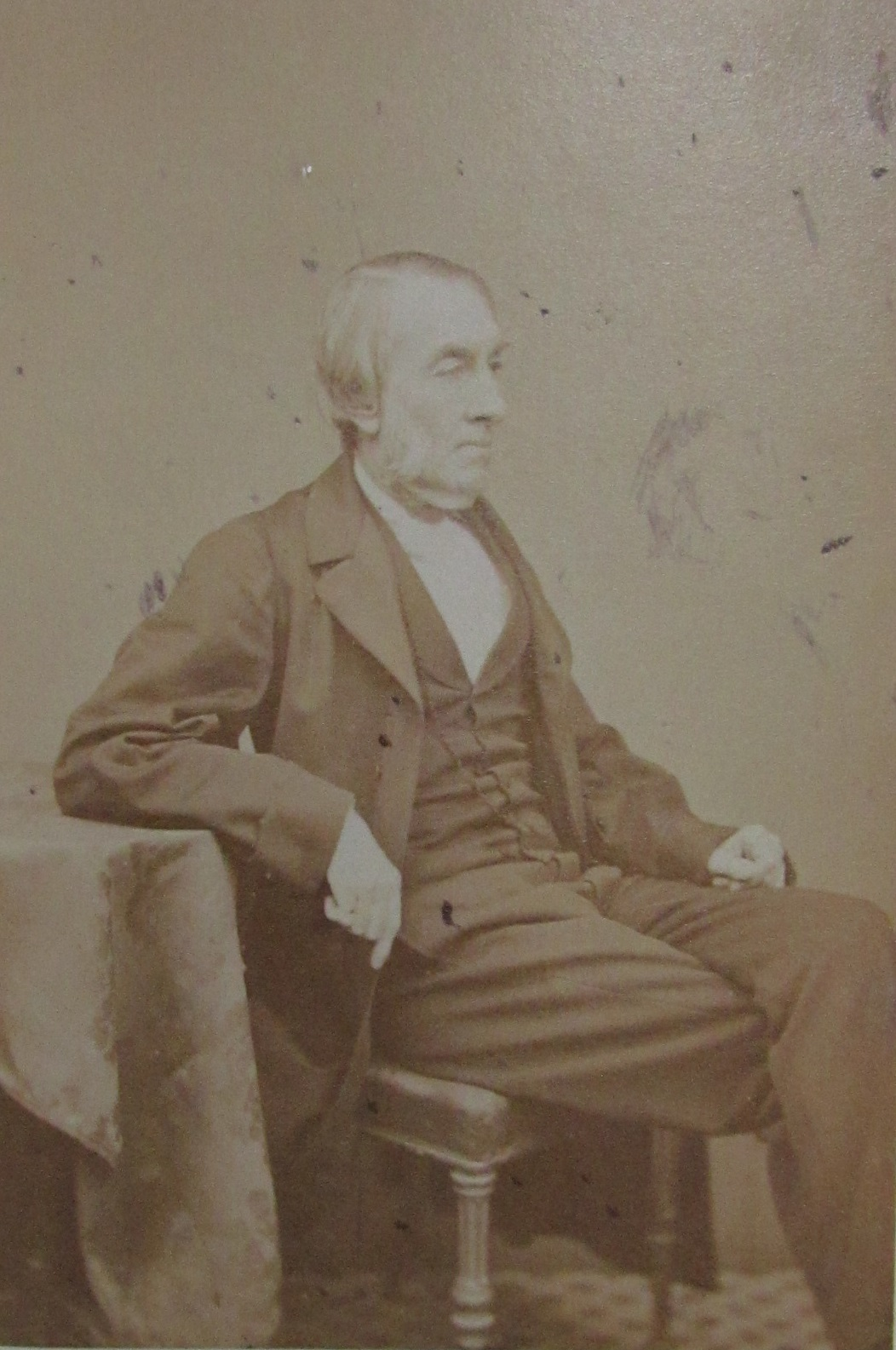 Photographic image of Richard Thomas Lowe, courtesy of the National Archives (J 121/2416)